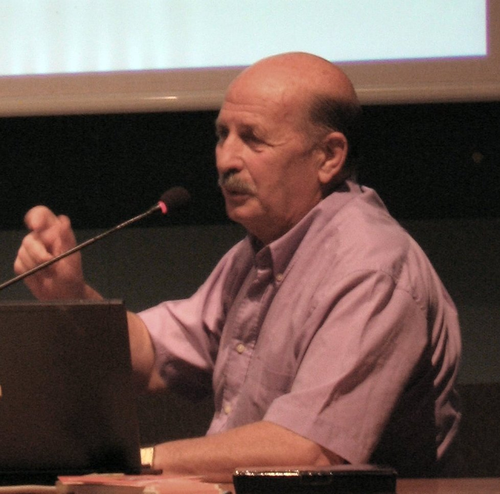 Claude Moliterni talking about Will Eisner work during Torino Comics 2006.